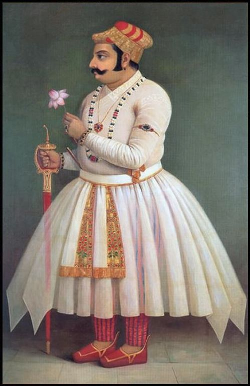 Painting of Maharana Jai Singh of Mewar (1680-1698) based on miniature made available to artist from palace.